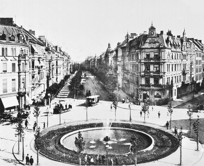 Pferdebahn am Barbarossaplatz (um 1890)